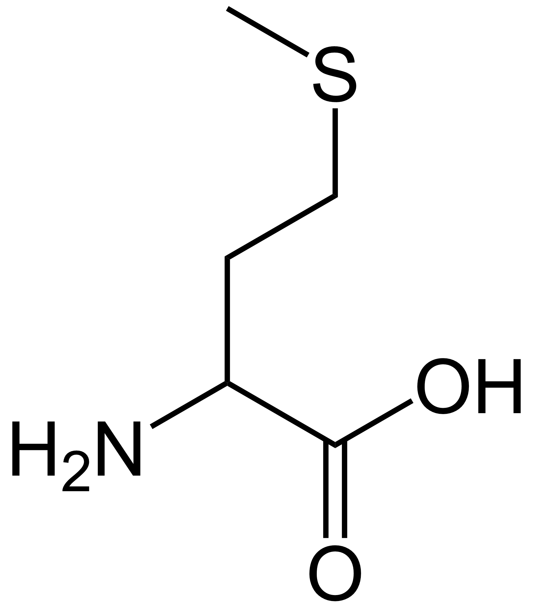 Amino acid methionine, simplified formula (i.e. without stereochemistry)